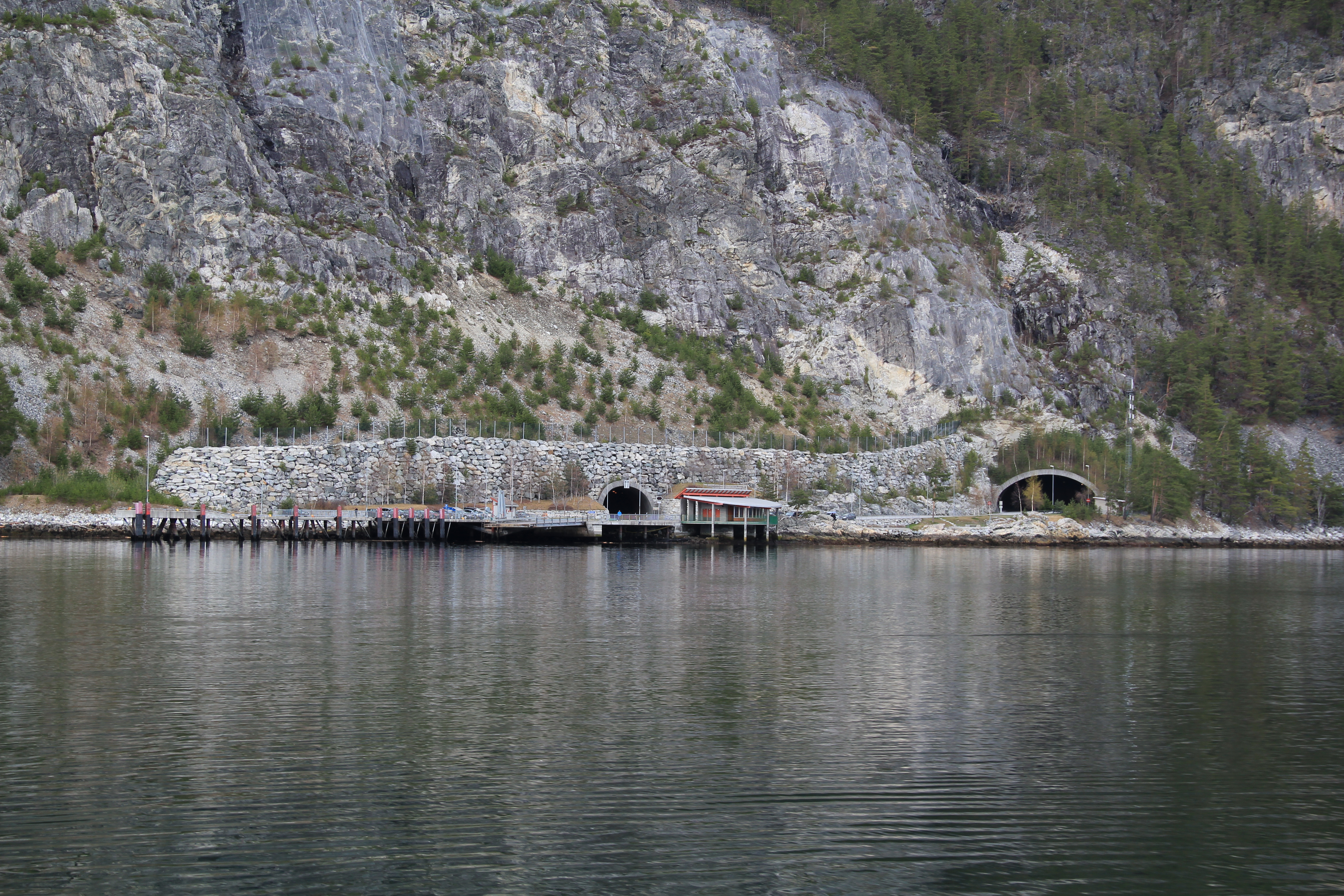 Manheller Ferry slip, Norway.